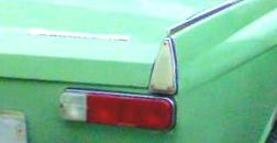 M412 rearlights